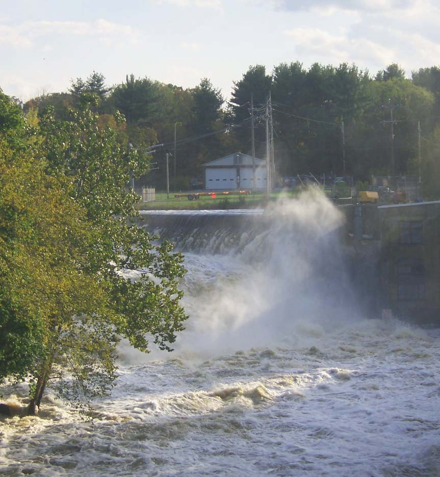 Photographed by Daniel Case in mid-October after a week of heavy rains.